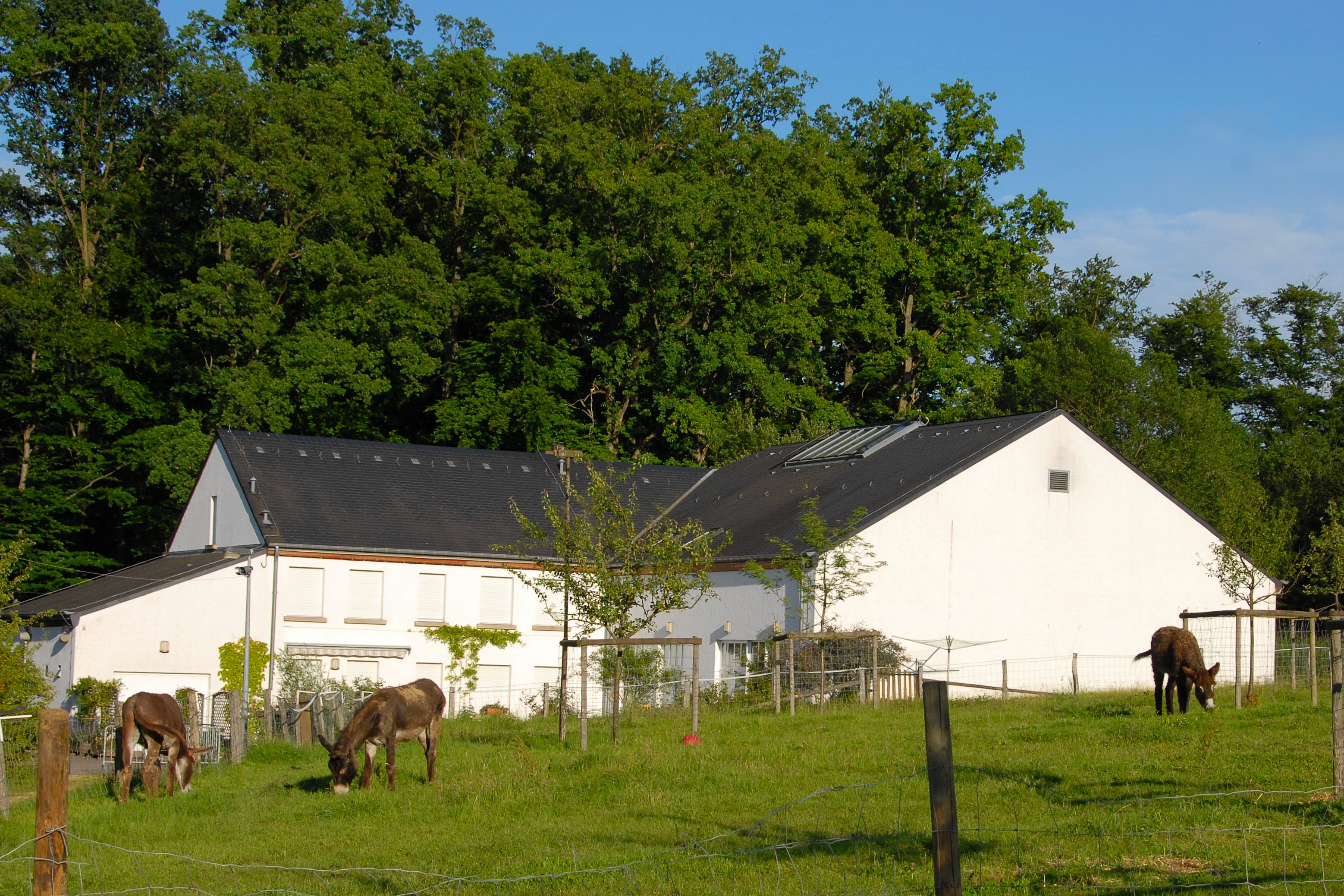 House of Nature (lb: Haus vun der Natur) in Kockelscheuer, Luxembourg.